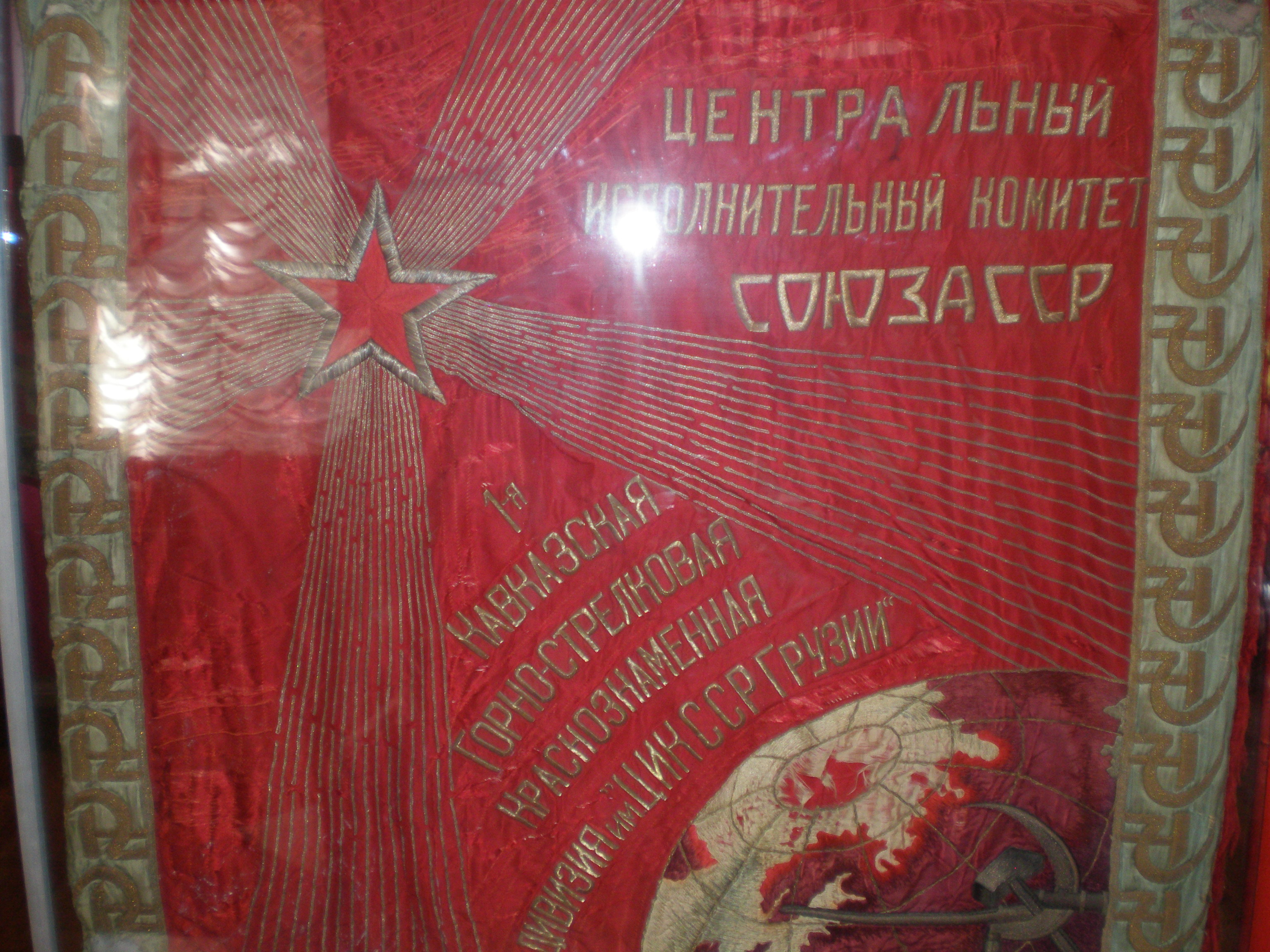 Flag of 9th Rifle Division (Kursk Infantry Division).